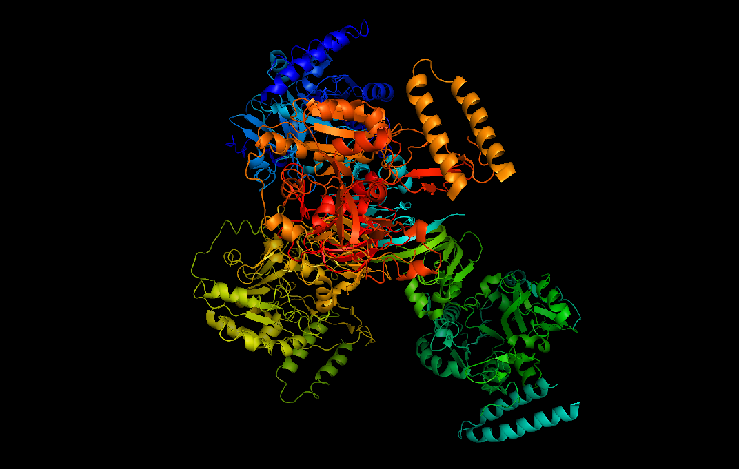 UDP-glucose pyrophosphorylase pictured in pymol